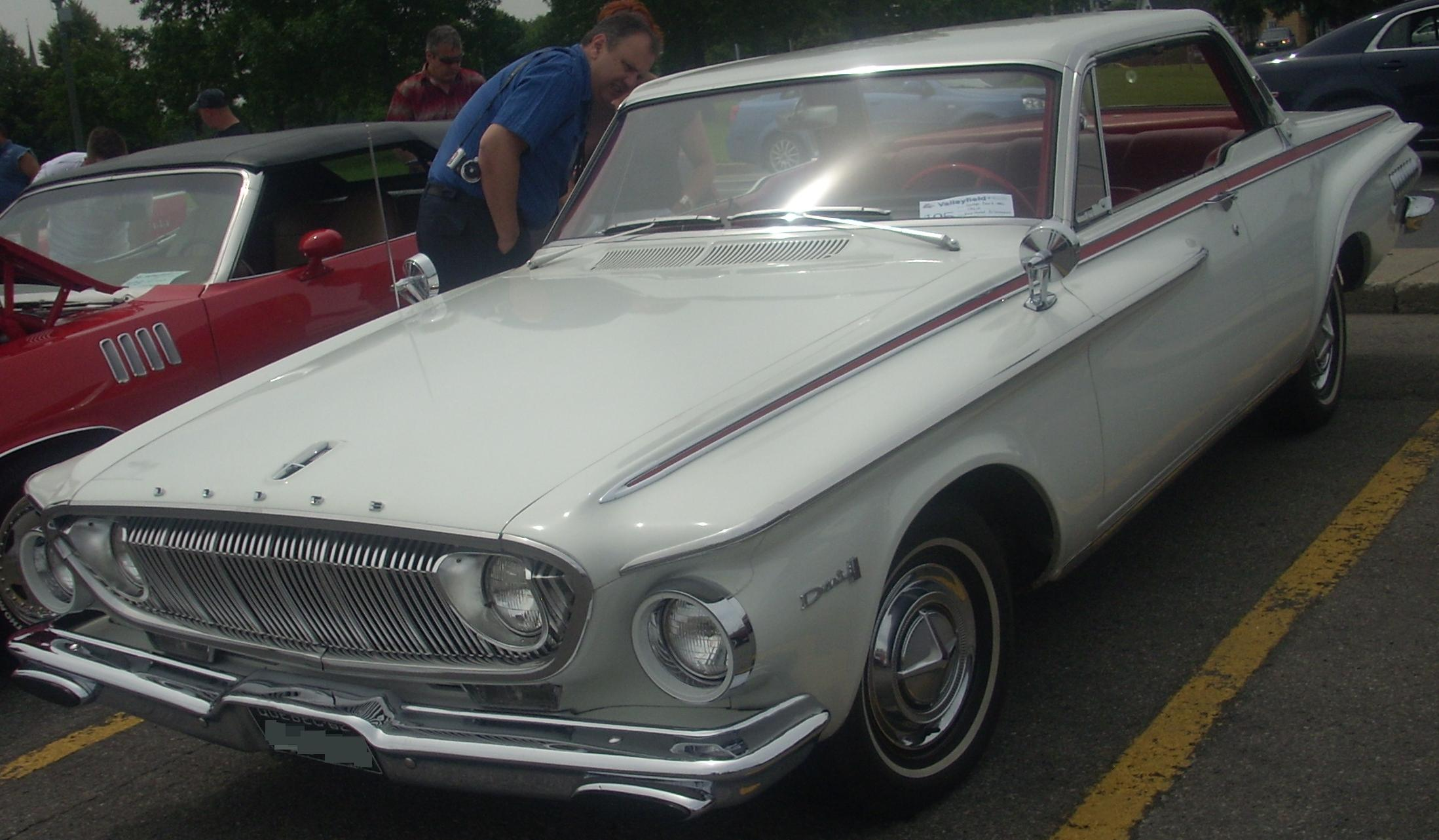 1962 Dodge Dart photographed in Salaberry De Valleyfield, Quebec, Canada at Rassemblement Mopar Valleyfield 2010.